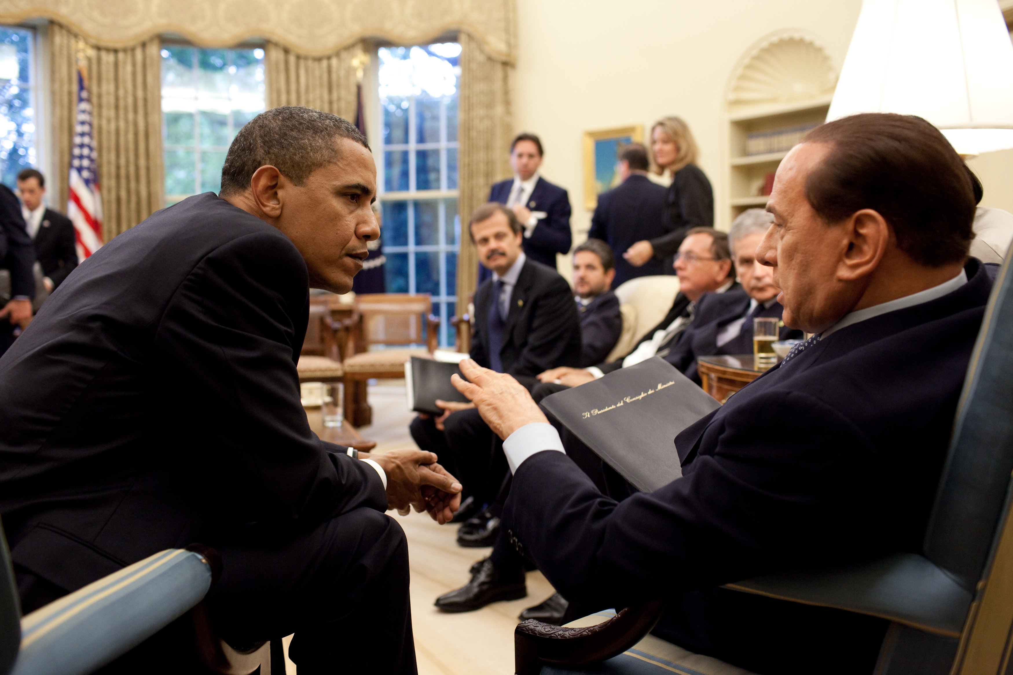 President Barack Obama meets with Italian Prime Minister Silvio Berlusconi in the Oval Office of the White House, June 15, 2009. (Official White House Photo by Pete Souza) This official White House photograph is in the public domain from a copyright perspective, so while restrictions such as personality or privacy rights may apply, in general, manipulations are allowed.